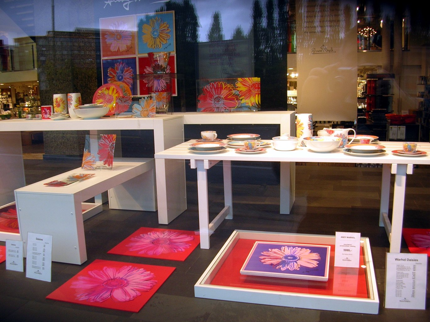 Andy Warhol – design